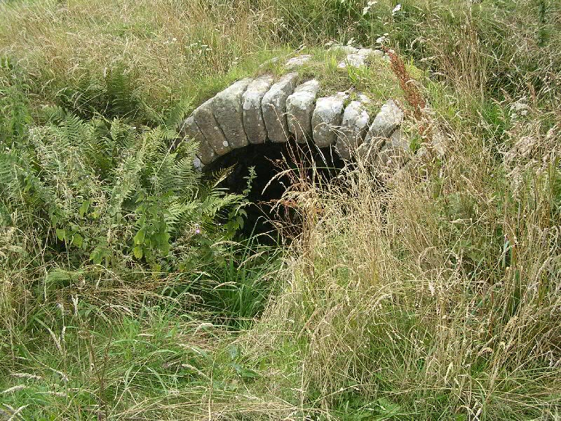 Vaulting of the subterranean strongroom of the headquarters building in the Hadrians Wall fort at Great Chesters (Aesica) GB. Looking SW.